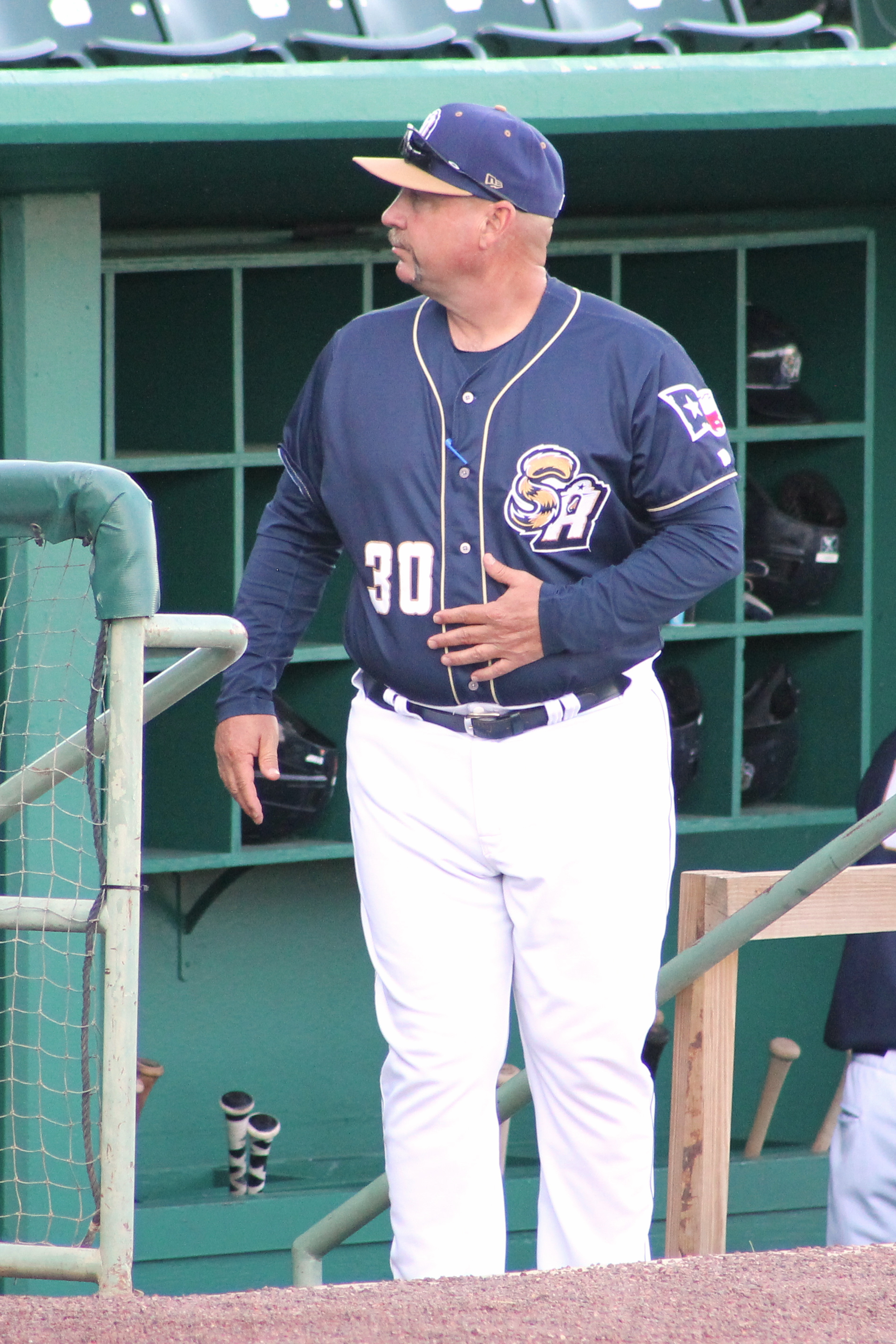 Professional baseball manager Phillip Wellman with the San Antonio Missions in May 2016.